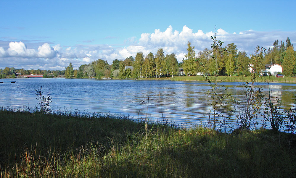 Lake Lövösundet in Holmsund, Umeå Municipality. View from south-west towards the bridge and the houses on Zakrisvägen.